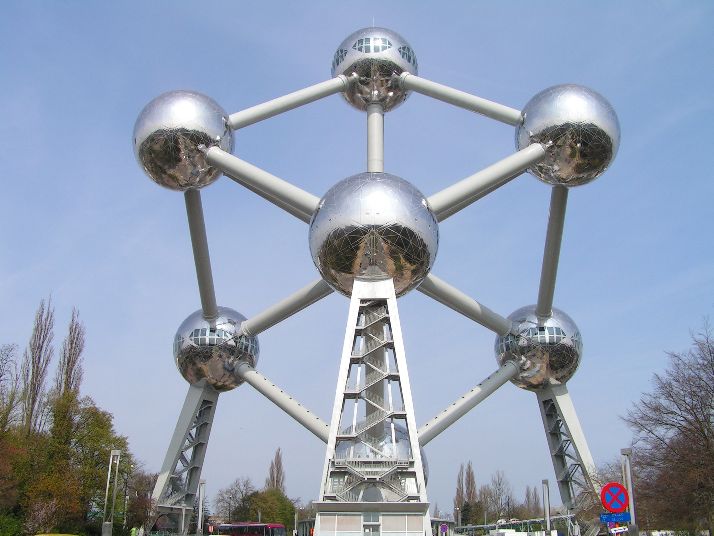 Atomium, BrusselsLëtzebuergesch: Den Atomium